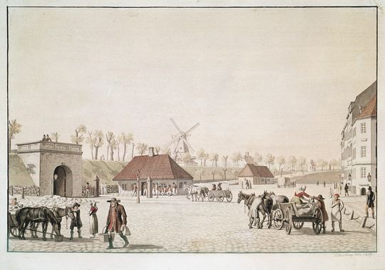 Painting from 1809 of the old haymarket with Vesterport city gate in Copenhagen, Denmark